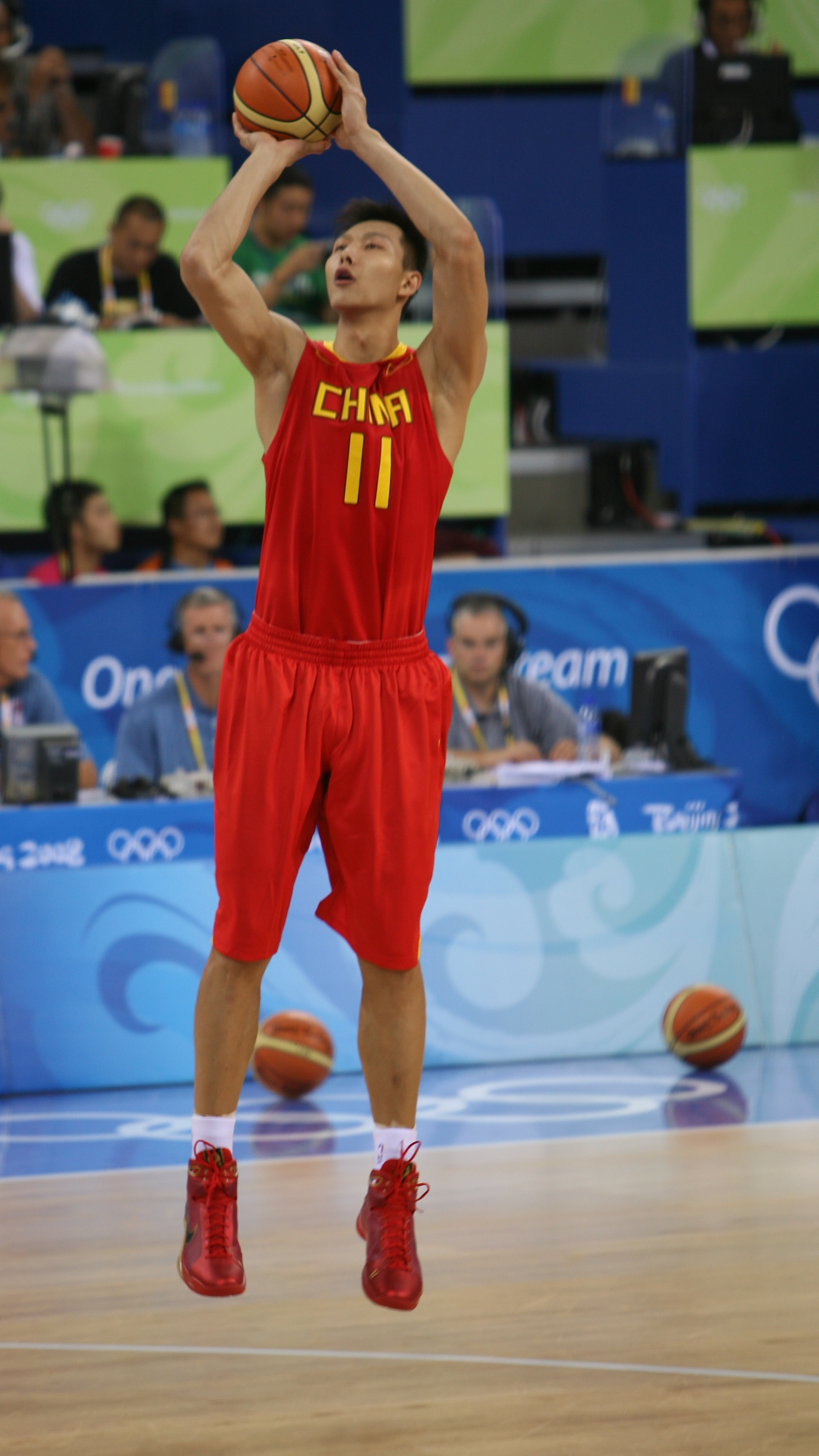 Yi Chan Lian - Team China Bball